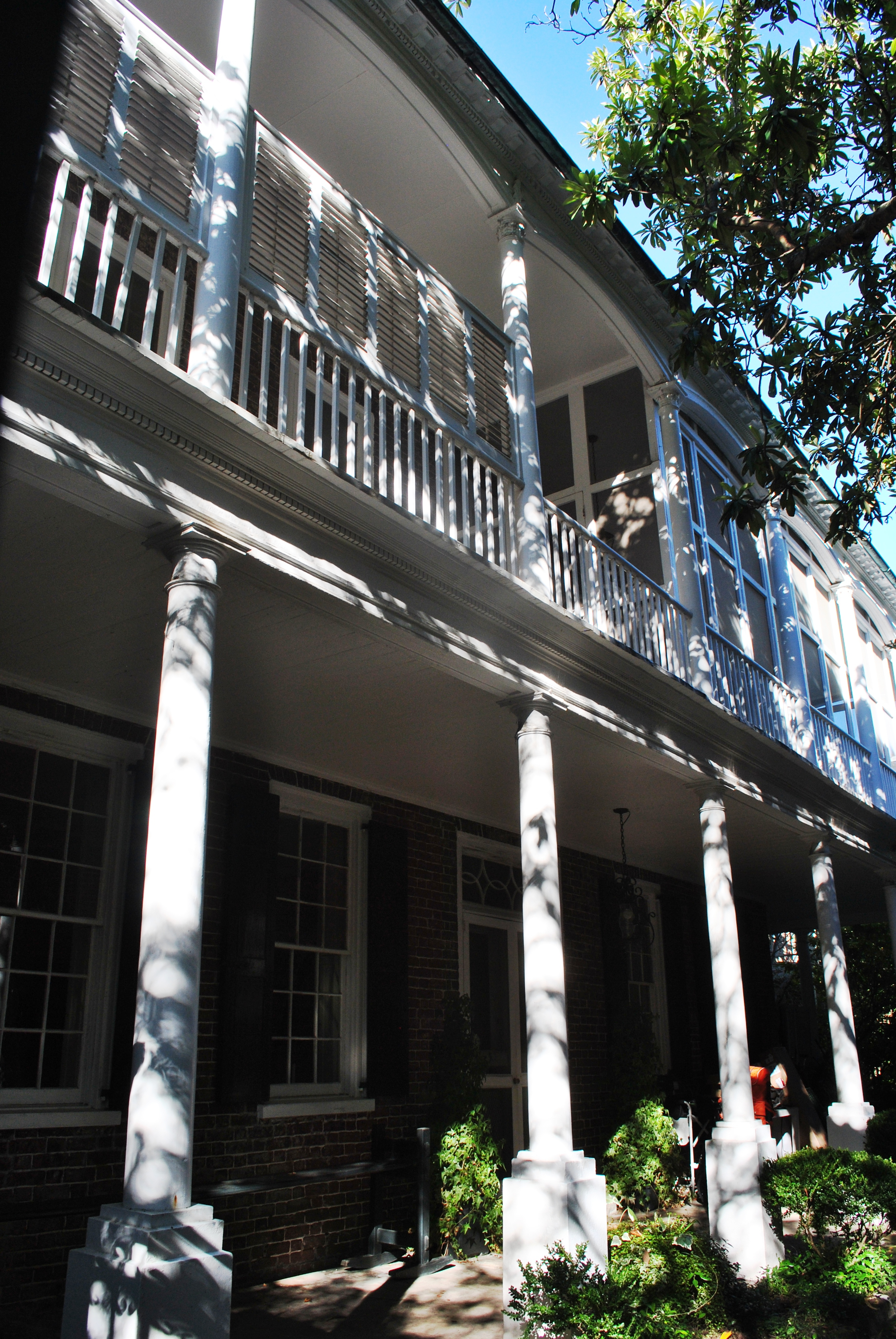 Alexander Christie House